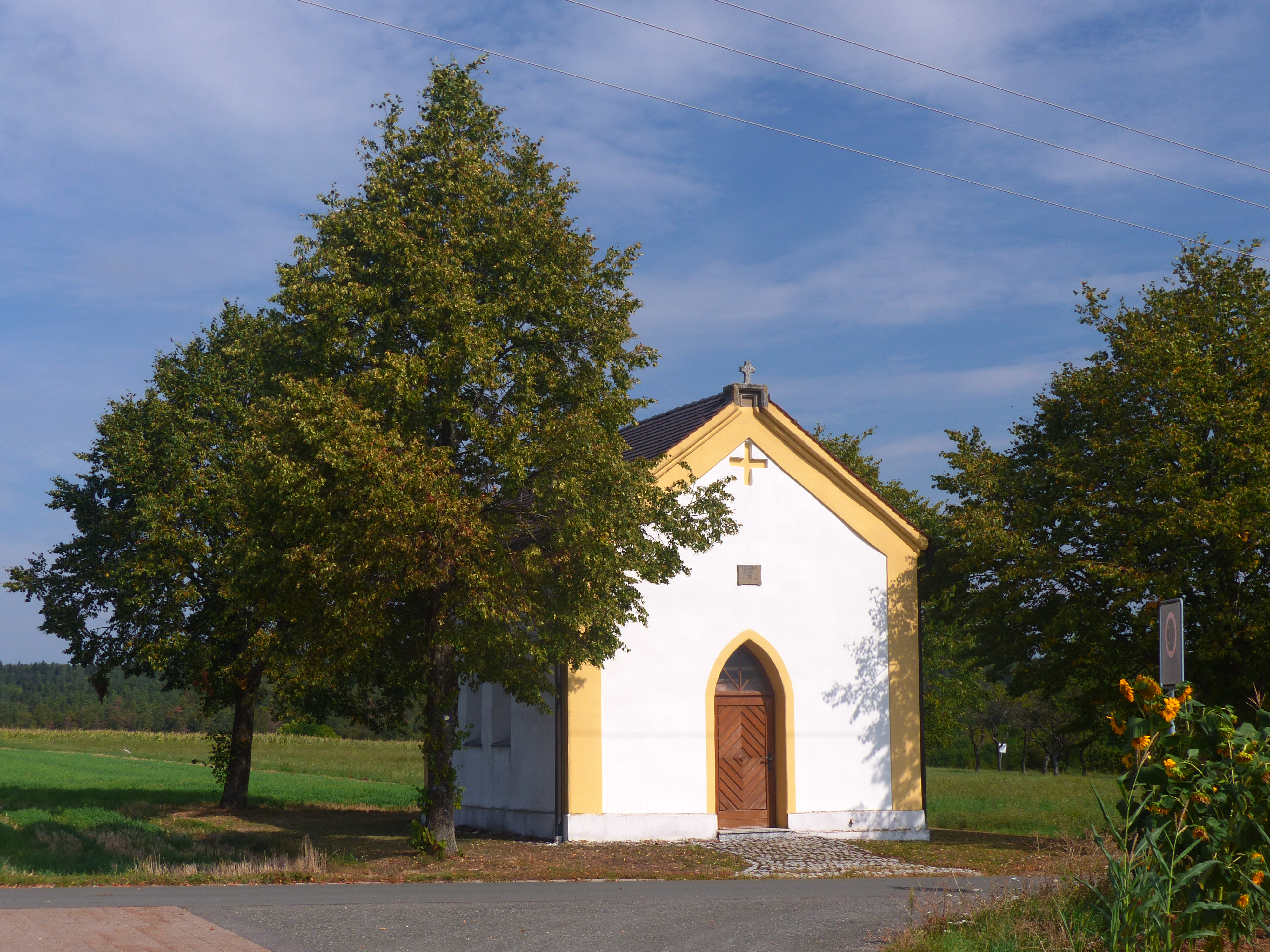 The chapel of the village Eschlipp, a district of the municipality of Ebermannstadt.